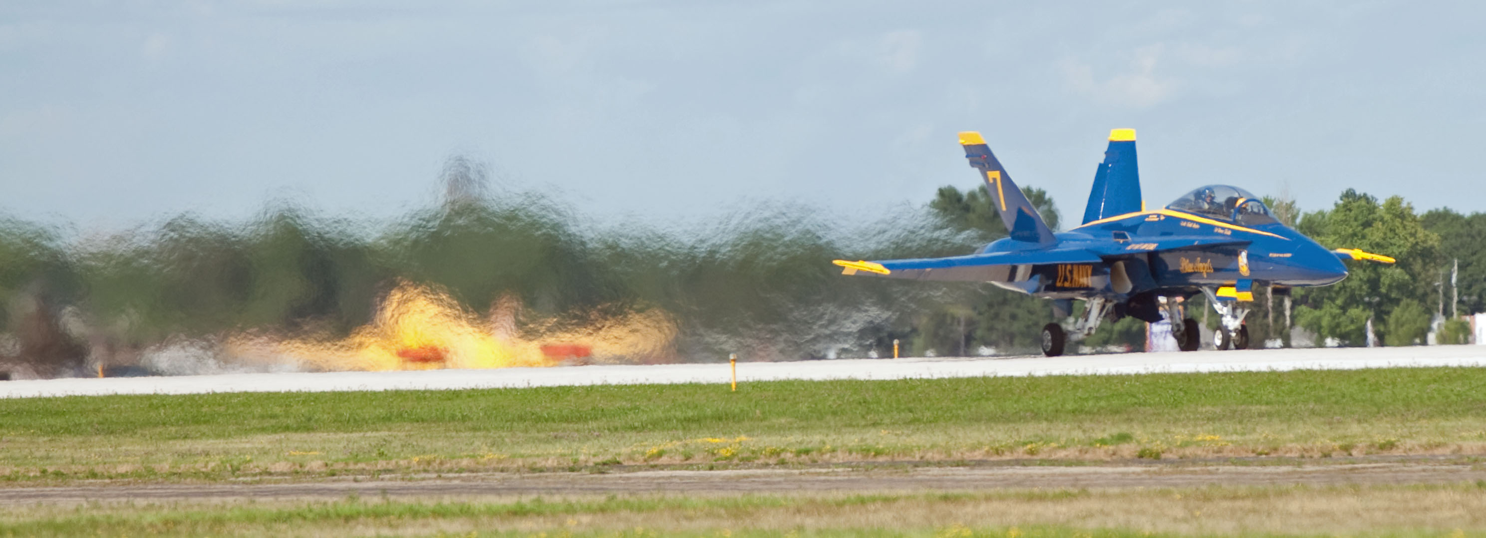 Blue Angel 7 taking off at the EAA Airventure Airshow in July 2011.